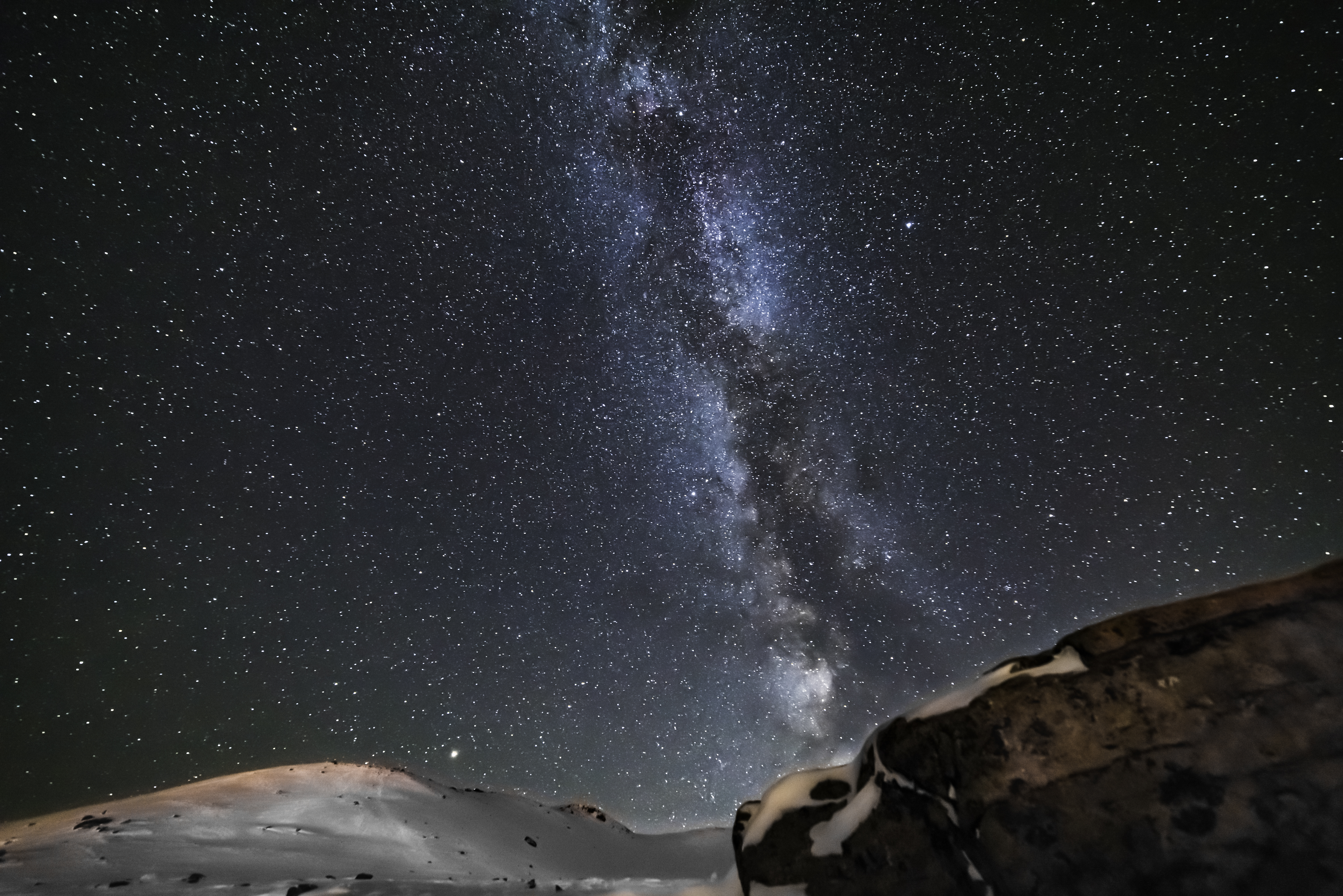 The Milky Way viewed over Whistlers Peak during the October Night Sky Festival in Jasper.